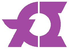 Oe Yamagata chapter